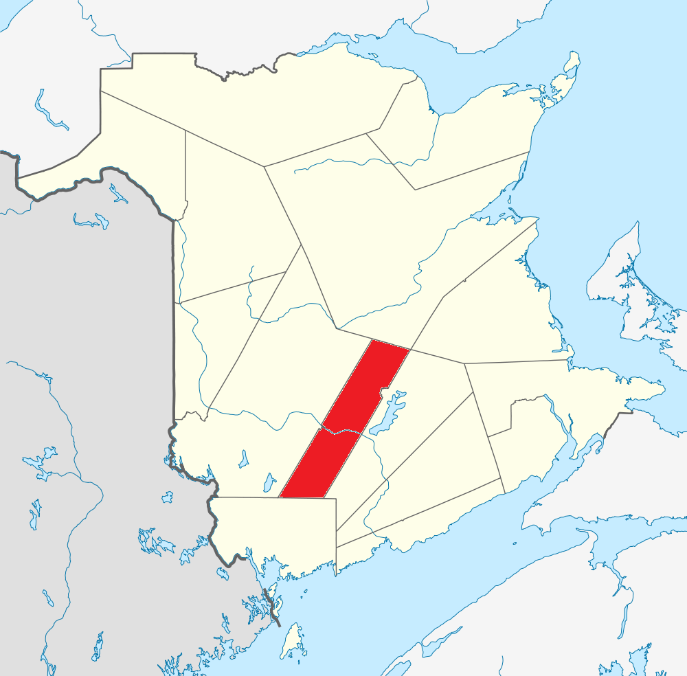 Map of New Brunswick highlighting Sunbury County